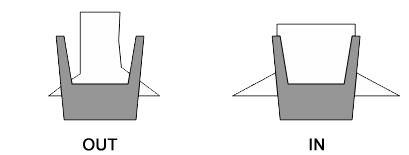 Relascope